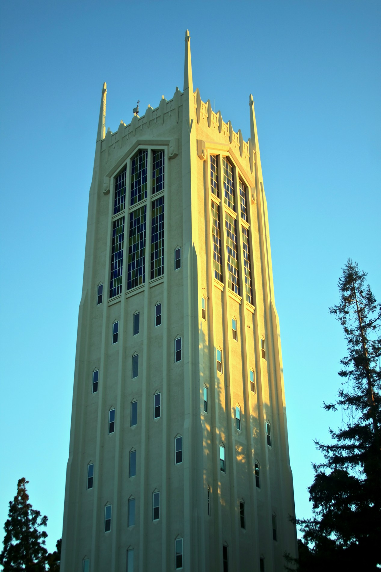 Burns Tower, UOP (University of the Pacific, Stockton, California.)